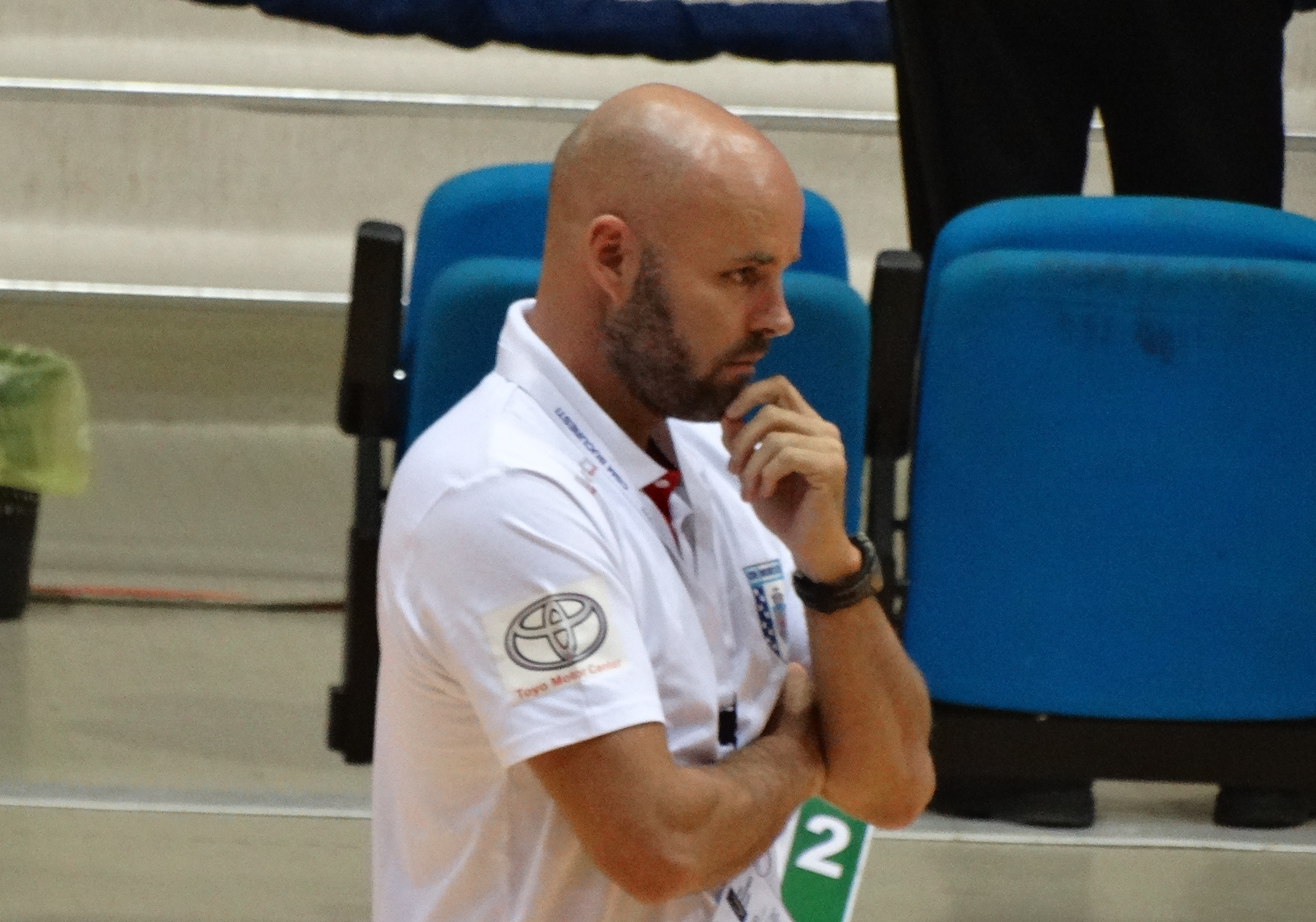 Danish handball coach Kim Rasmussen playing for CSM București. (2015)